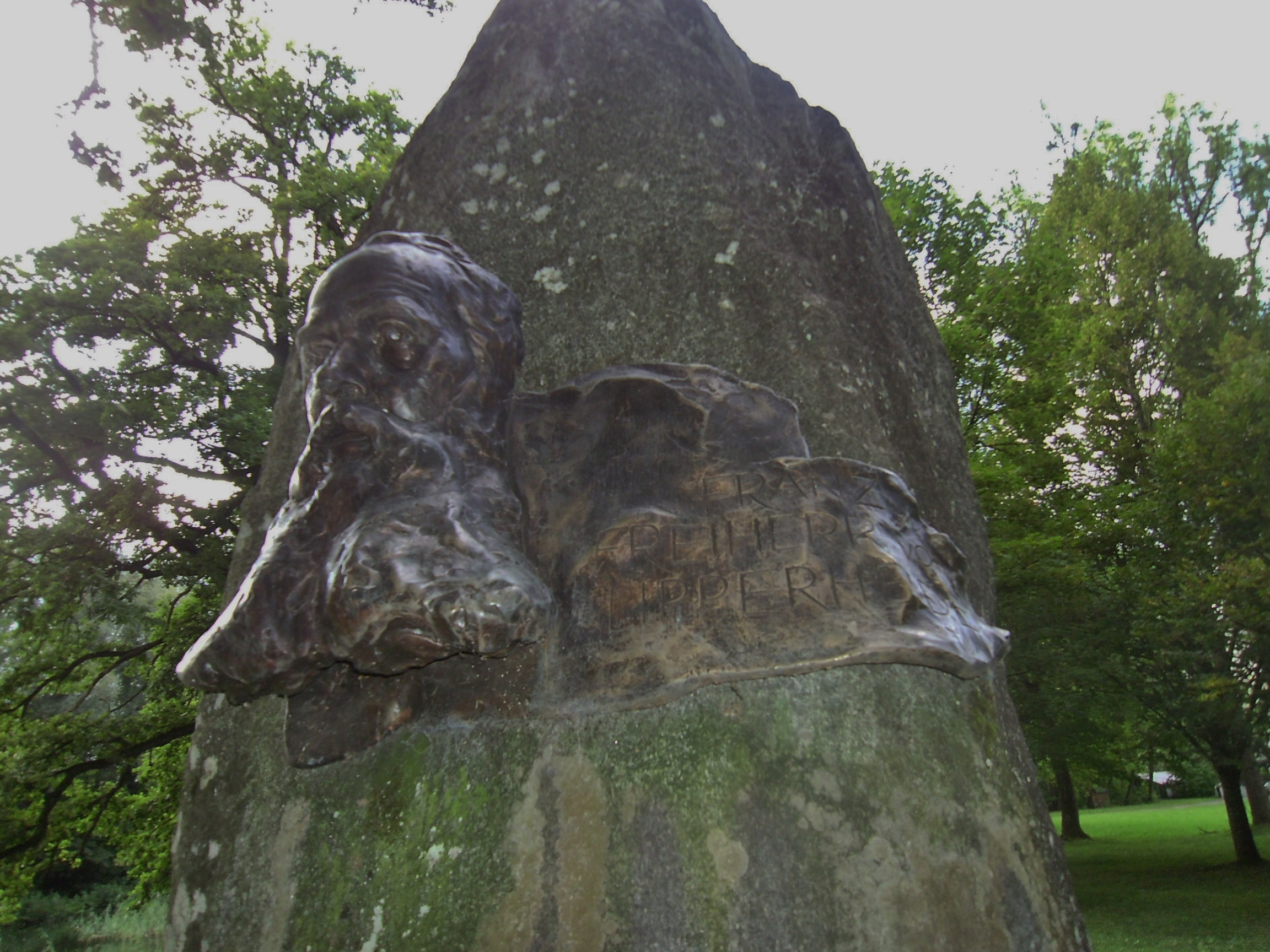 Bust of Franz von Lipperheide in public Matzenpark, Tyrol